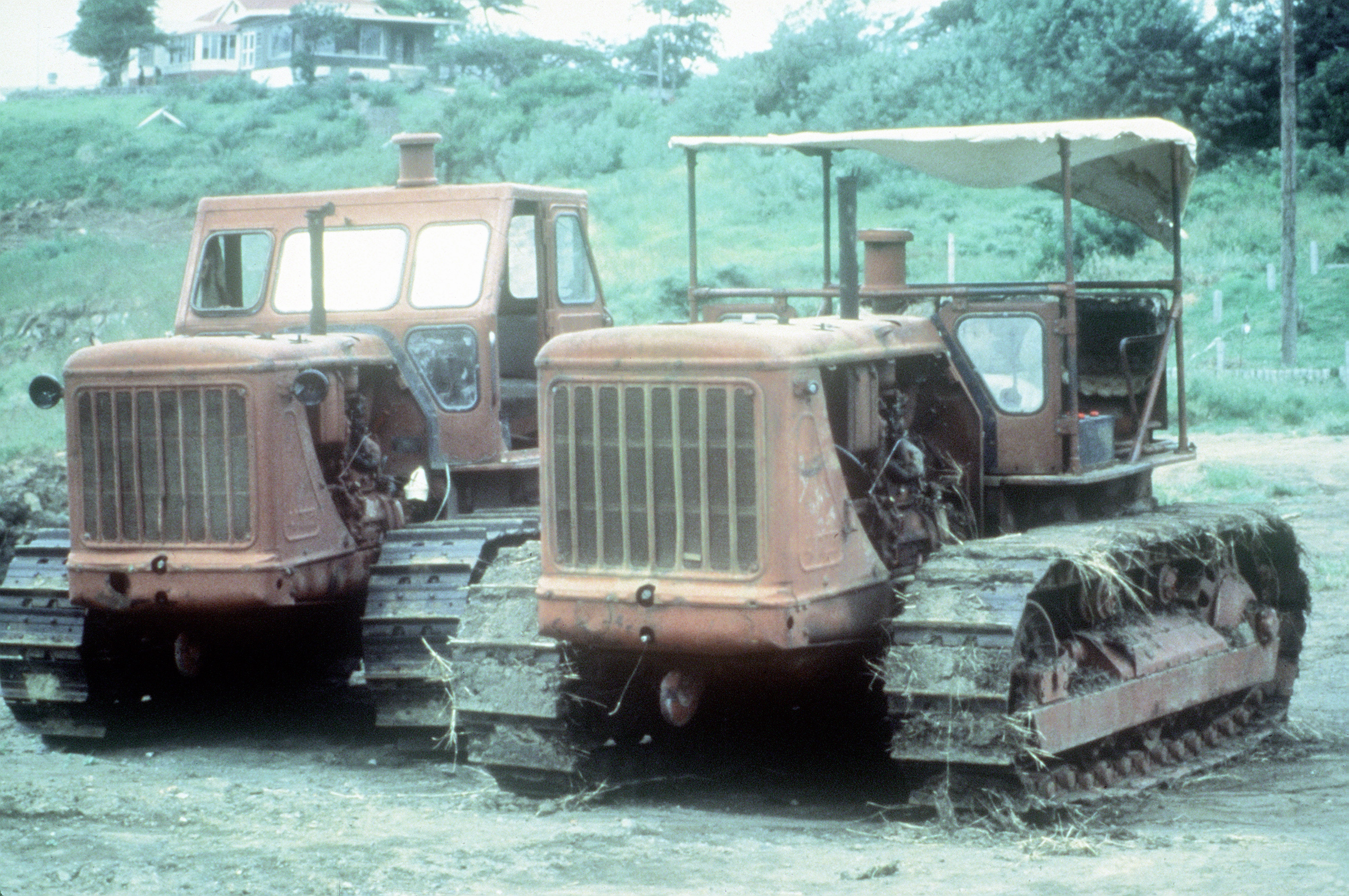 Soviet-built tracked prime movers that were seized during Operation Urgent Fury. They were being used in the construction of the airport at Pt. Salines: T-100 (left), T-108 (right).